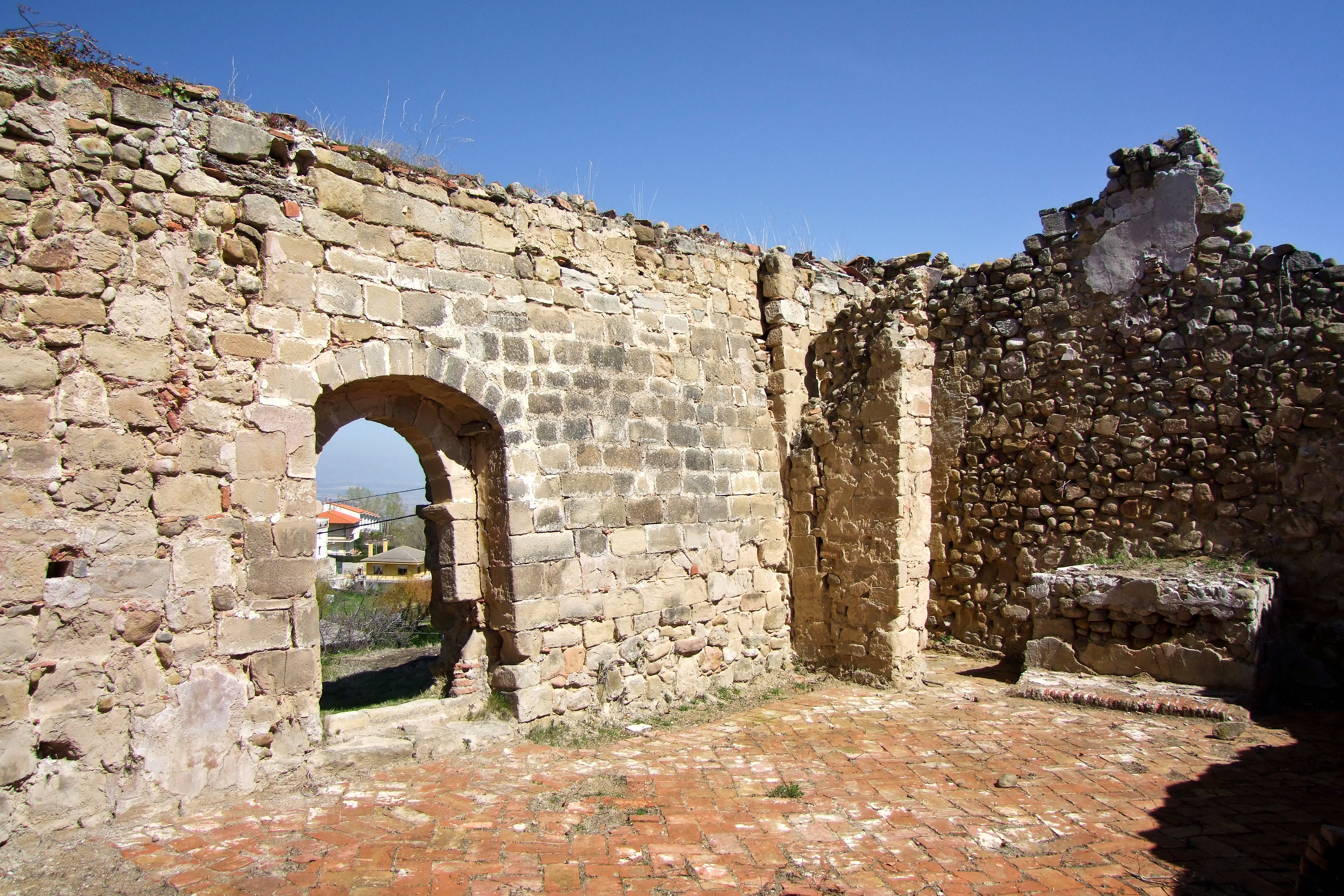 Ruinas de la ermita de San Juan en la localidad de La Villa de Ocón, La Rioja - España